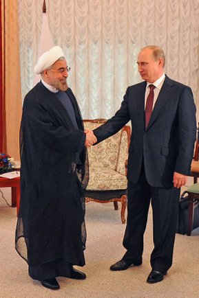 Hassan Rouhani and Putin in Bishkek, 13 September 2013